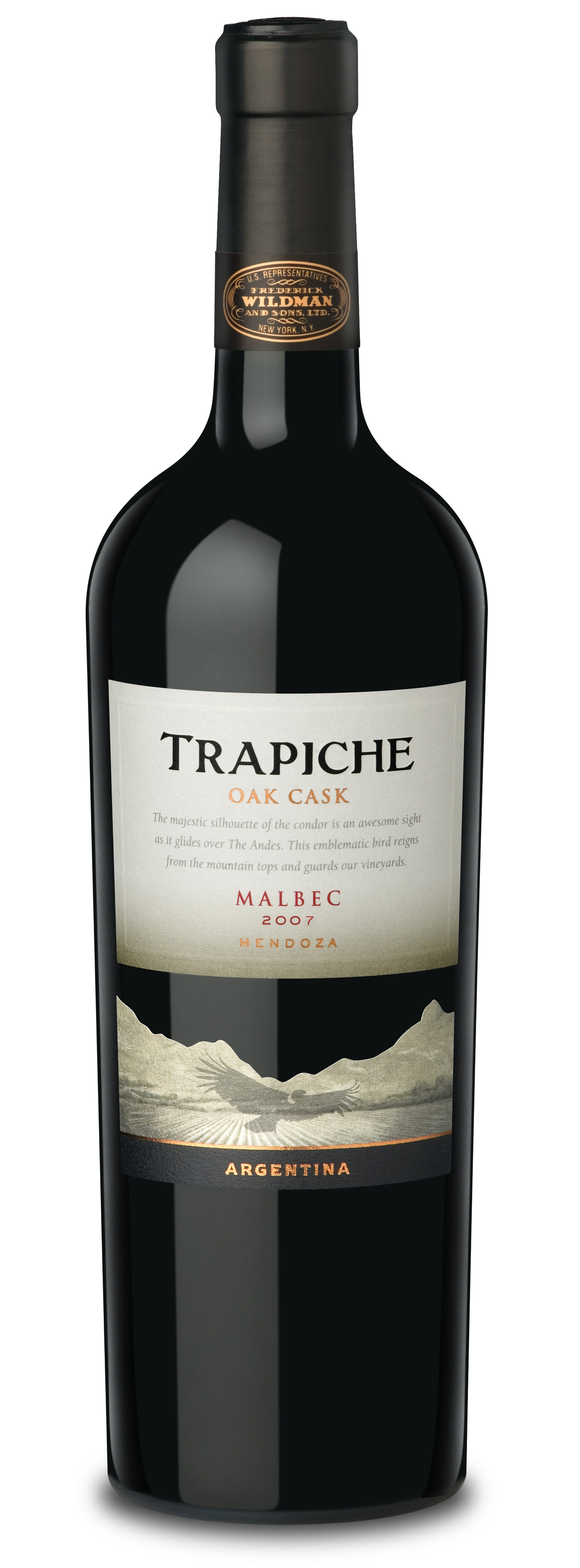 Bottle of Trapiche Oak Cask Malbec